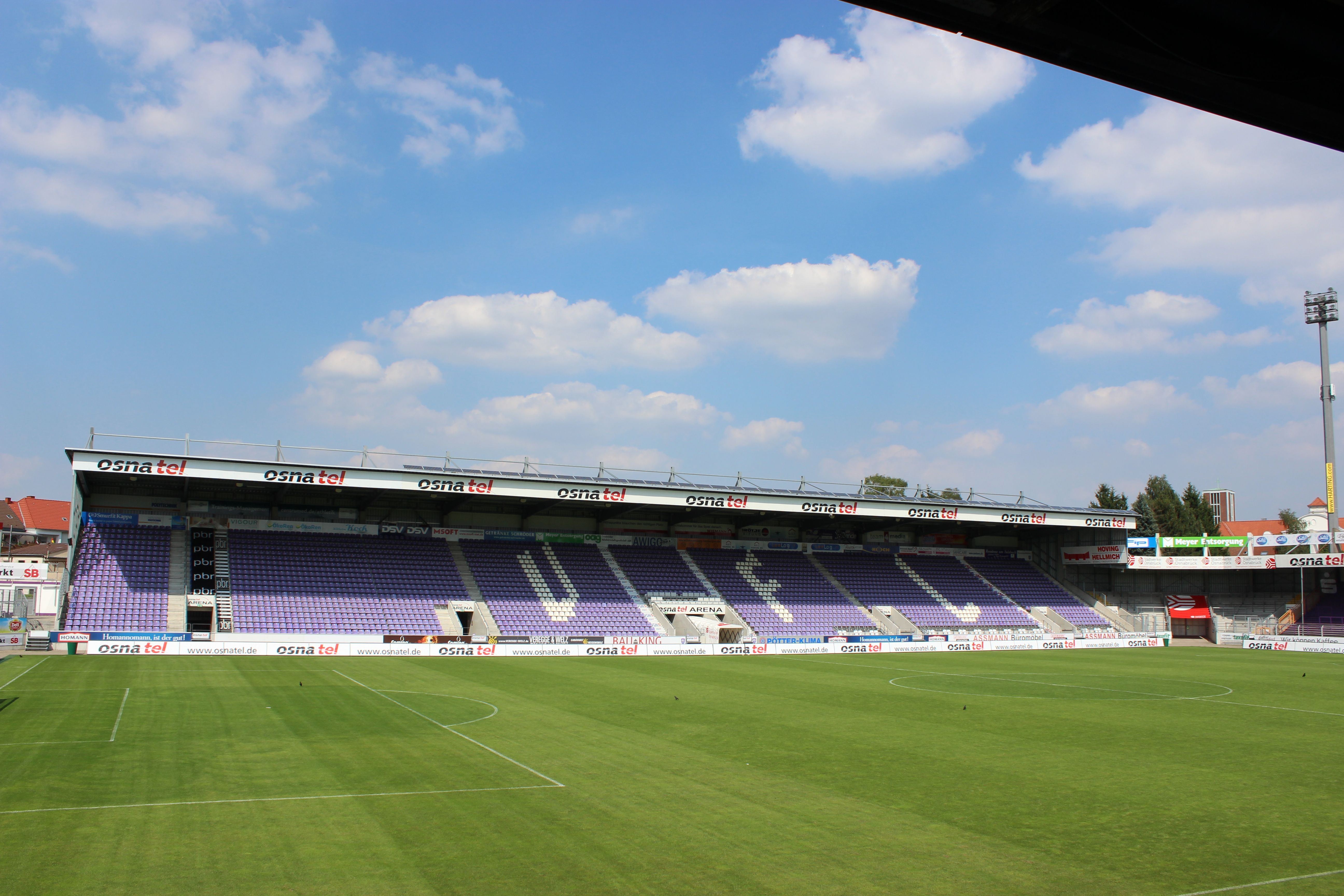 Osnabrück: osnatel Arena